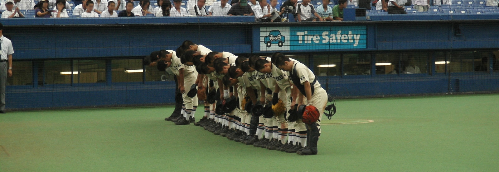 High school baseball in Meiji Jingu Stadium